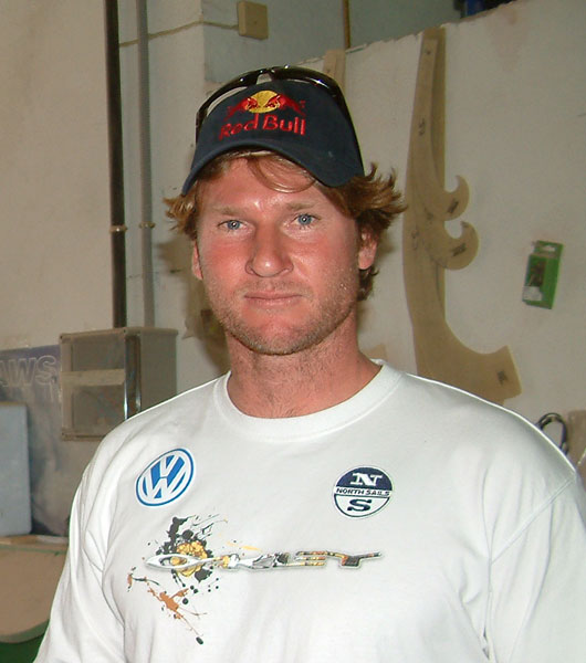 Bjorn Dunkerbek in Proof factory. Gran Canaria